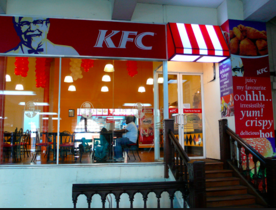 One of many KFC outlets located in a shopping mall in Colombo Sri Lanka